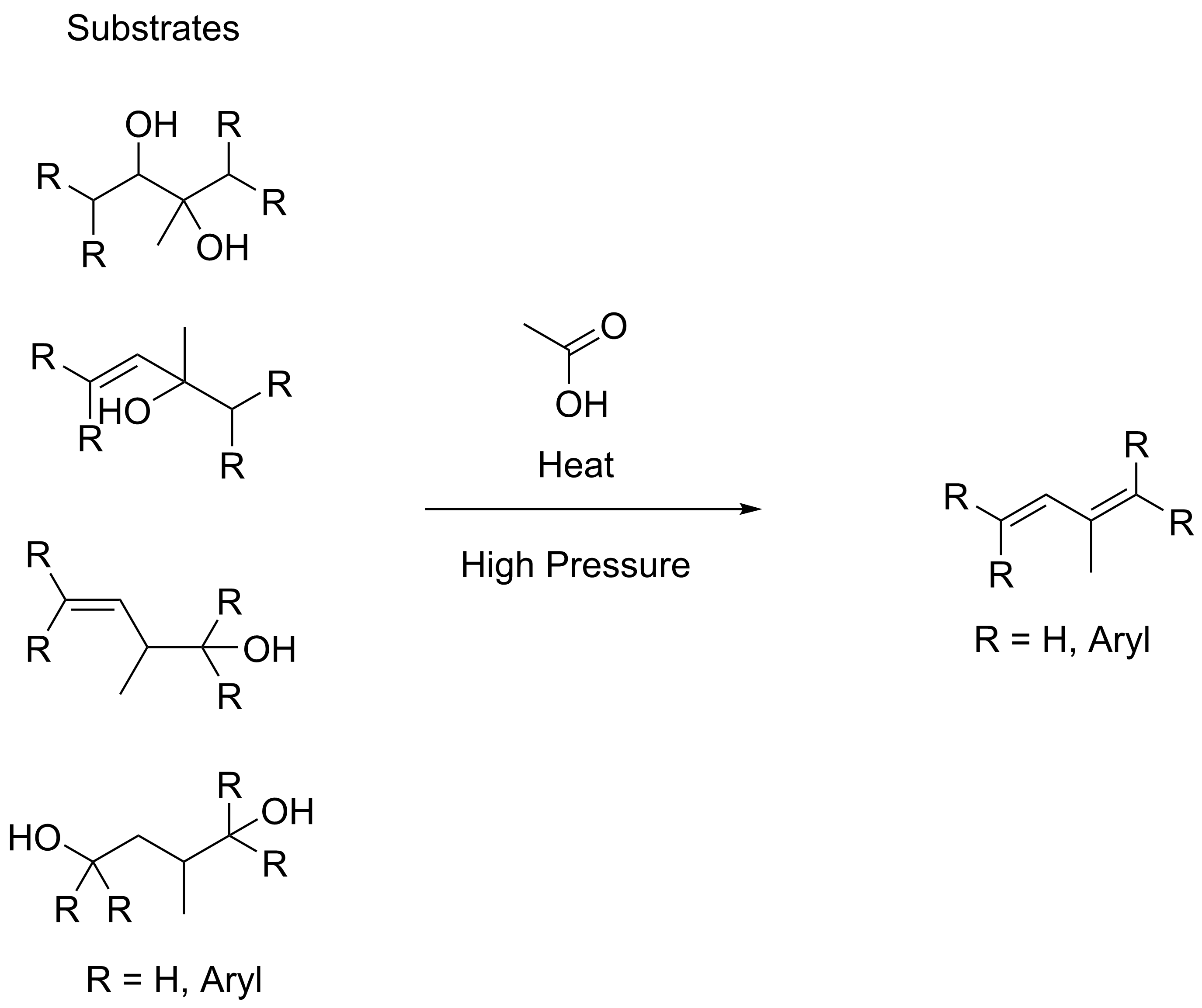 patent for the synthetic production of isoprene from various monomers